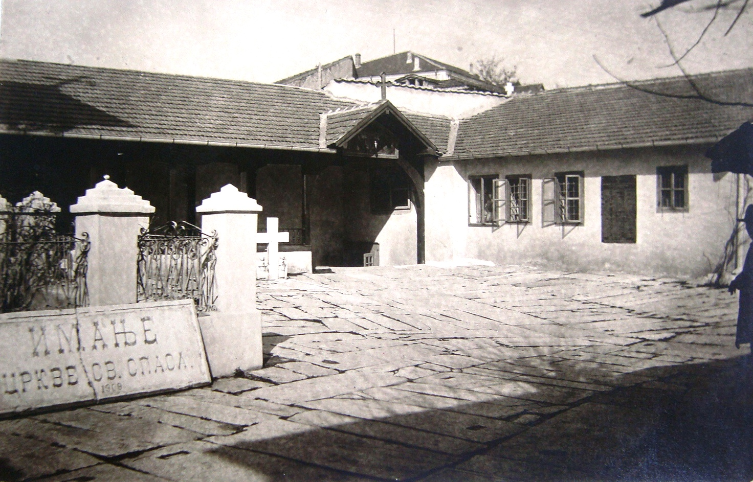 Historical images of Skopje: Church of the Ascension of Jesus, Skopje This media file is produced by Wikipedian in Residence in Category:Wikipedian in Residence at DARM in 2016.